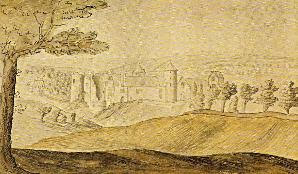 Watercolour painting of Farleigh Harleigh Castle, 1730; 18th century labelling removed